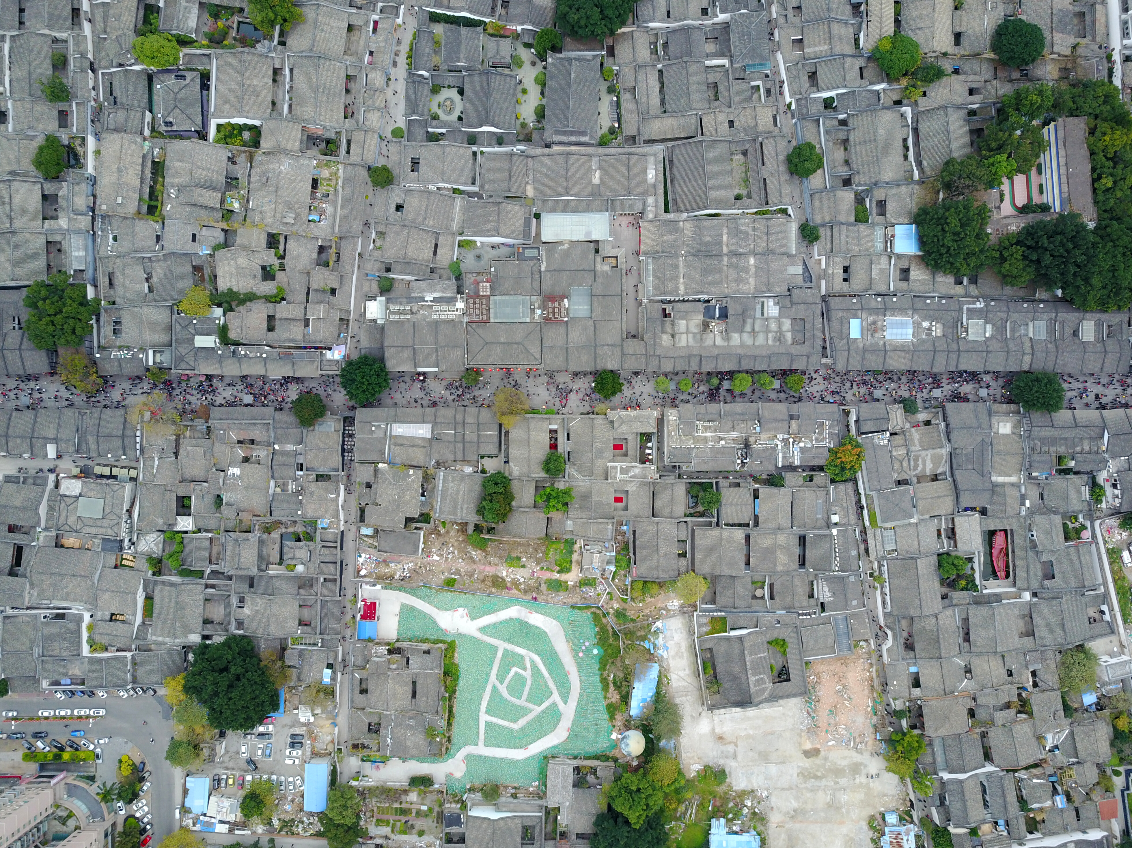 Fuzhou, "Sanfang Qixiang" or Three Lanes and Seven Alleys. 2017-Jan. Aerial photo